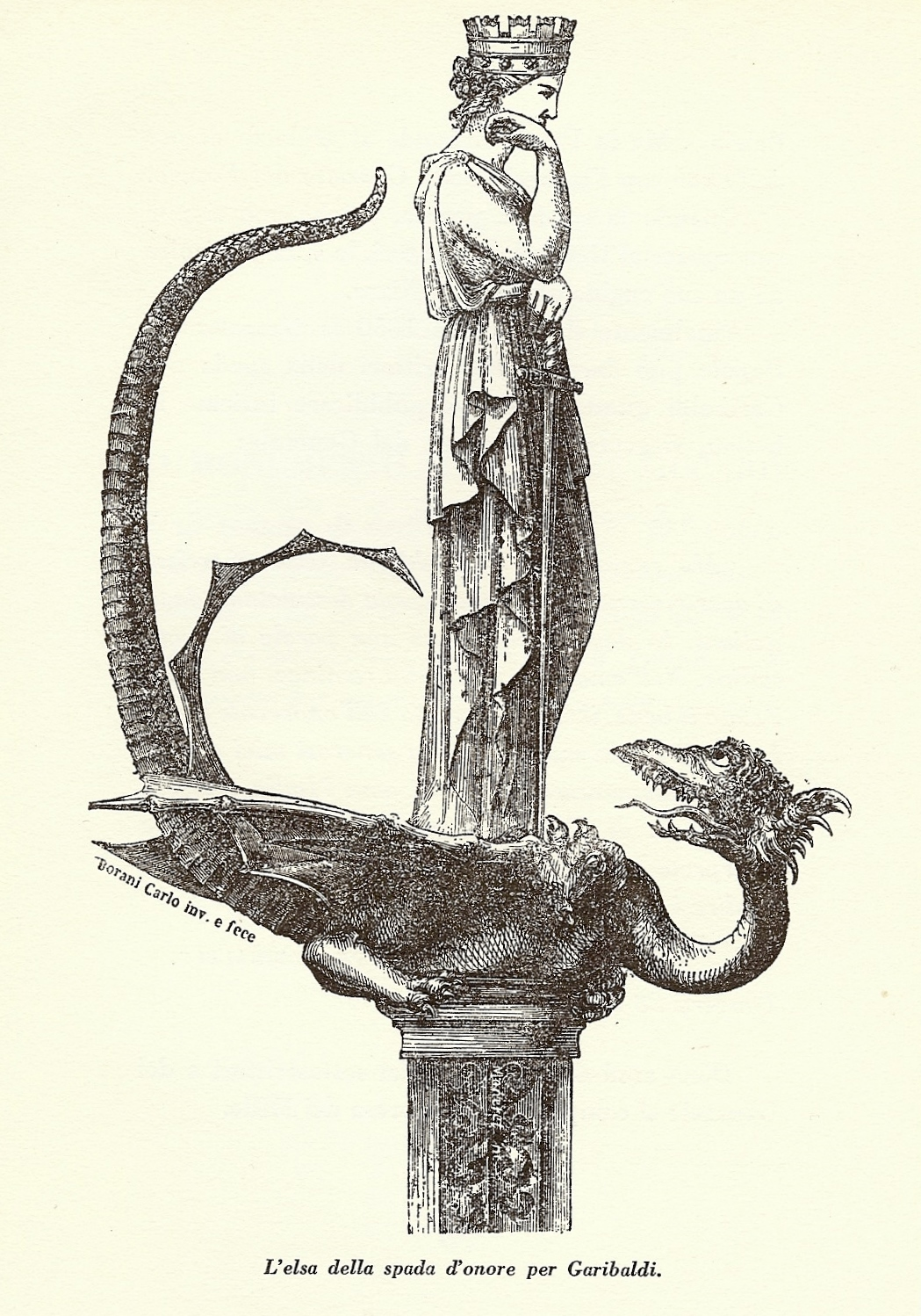 The hilt for the honor sword destined to Giuseppe Garibaldi